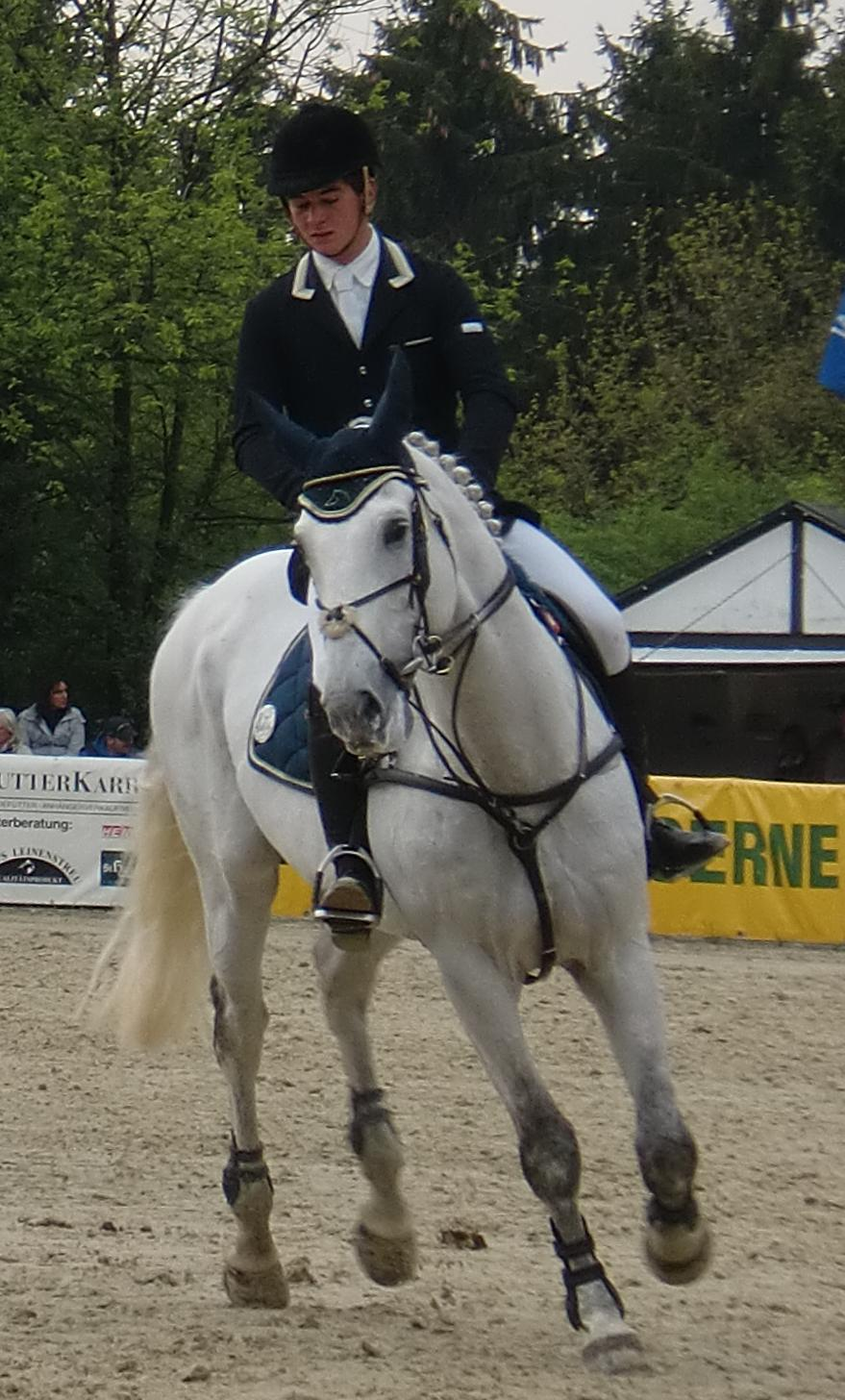 Frederik Knorren and Rubicon du Buisson, Grand Prix of Remscheid in Remscheid-Lüttringhausen, May 2010